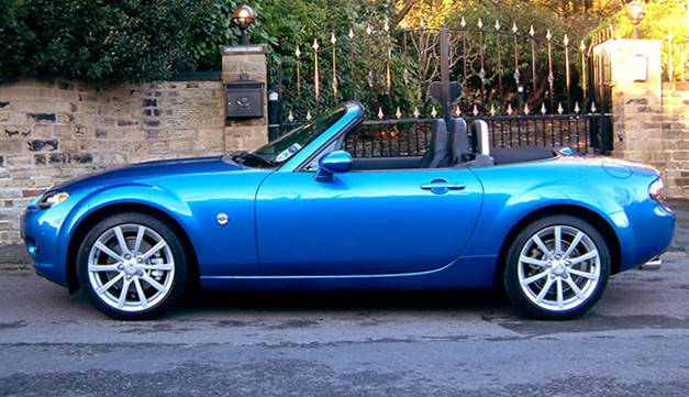 2006 Winning Blue Mica.